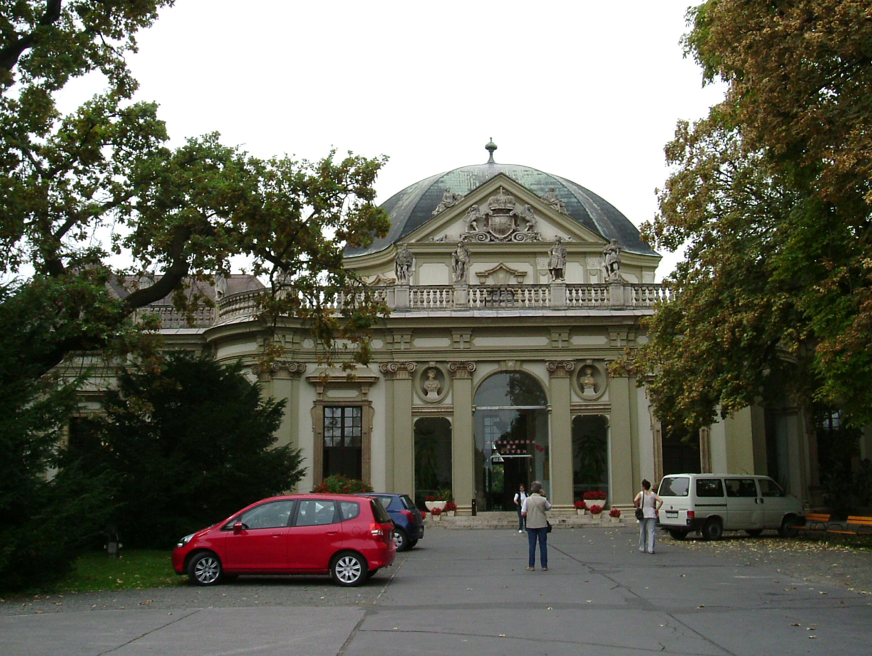 Savoyai Mansion, Ráckeve, Hungary This is a photo of a monument in Hungary. Identifier: 7285